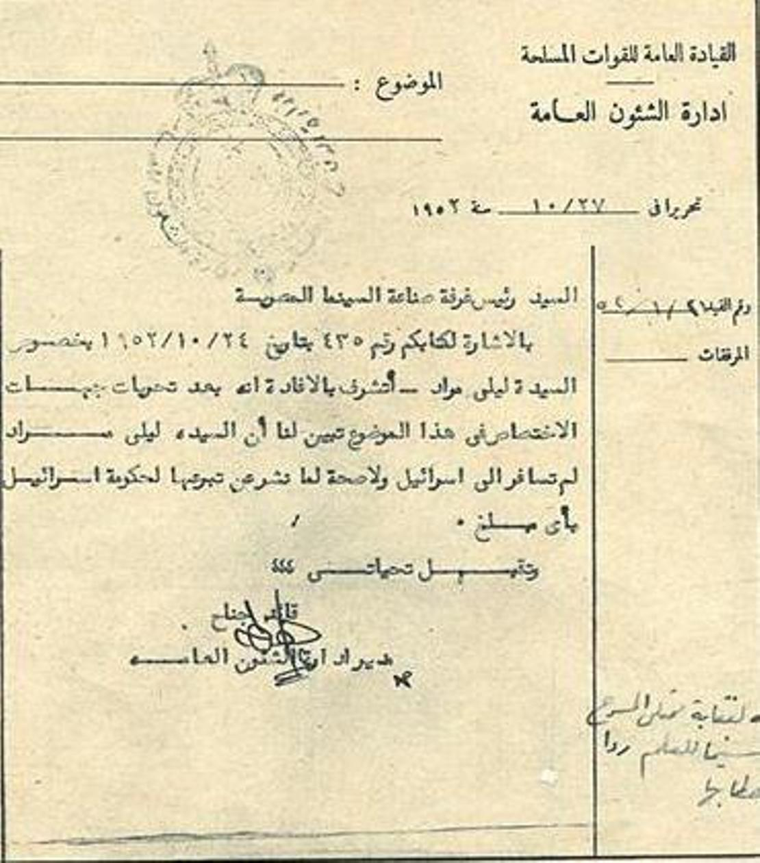 Laila Murad letter 27-10-1952